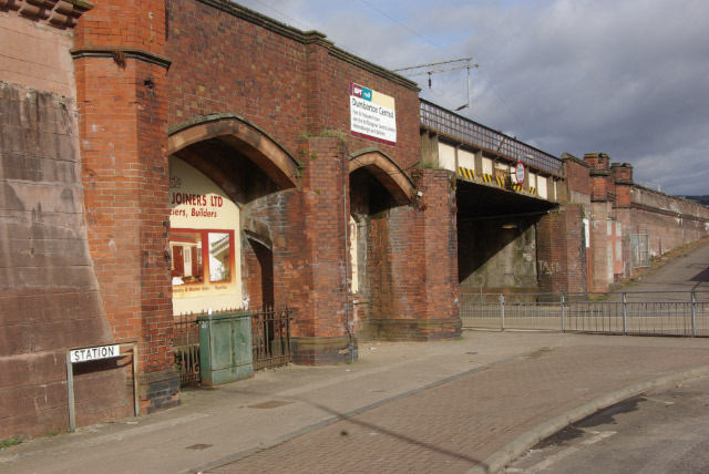 Station Road, Dumbarton The arches carry Dumbarton Central station. The sign advertises 'Fast & frequent train services to Glasgow Central, Airdrie, Helensburgh and Balloch'.